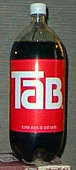 A picture I took of various kinds of Tab. The 12-packs on the bottom are the 1993-2006 and 2006 - ???? package designs, and the little carton on top is for Tab Energy. Next to it are a regular can of Tab (partially hidden - I may reshoot this picture later), a can of Tab Energy, and a 2-Liter bottle of Tab. The various brands of Tab (and their logos) are the property of the Coca-Cola company.